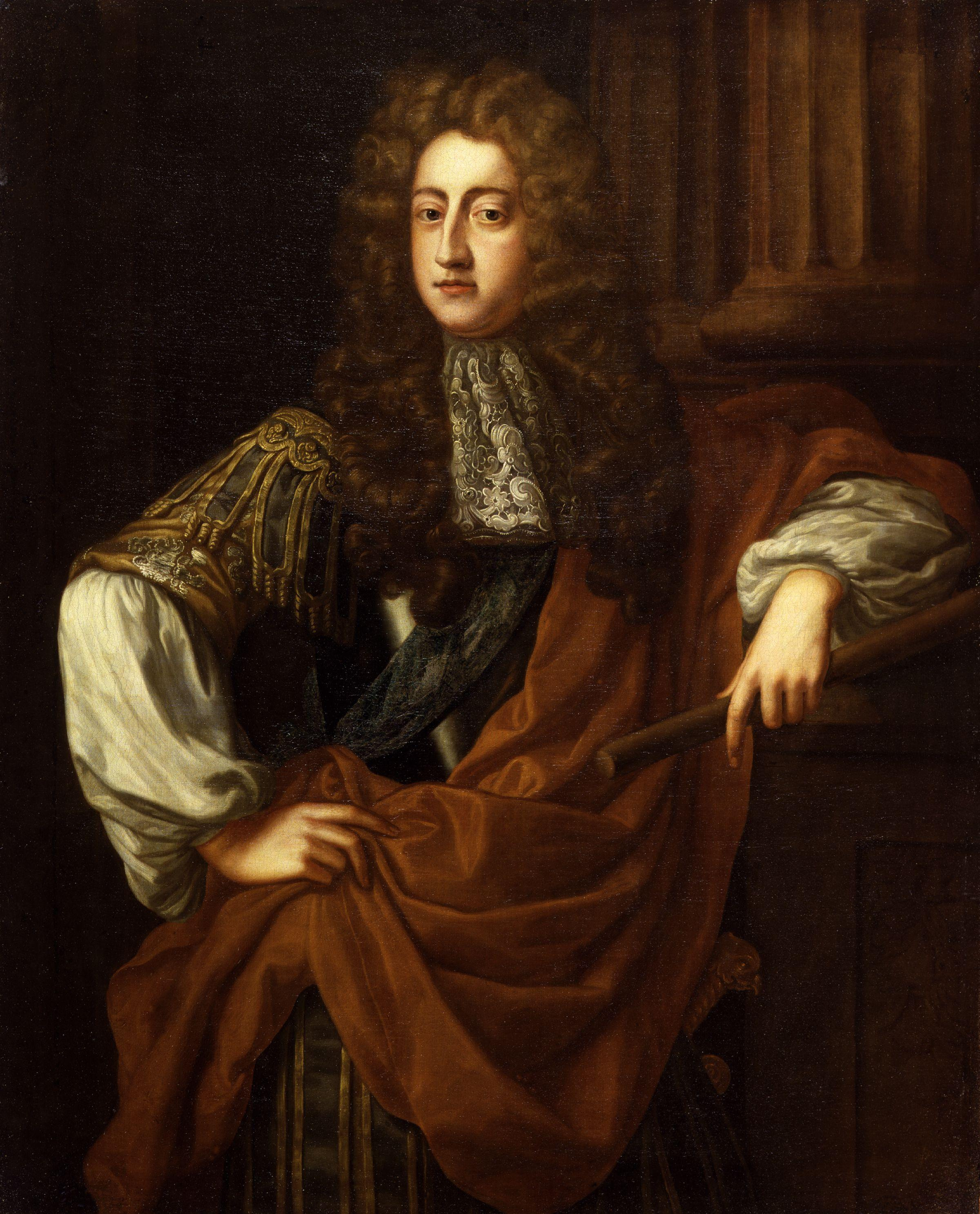 All images in this batch have been confirmed as author died before 1939 according to the official death date listed by the NPG.